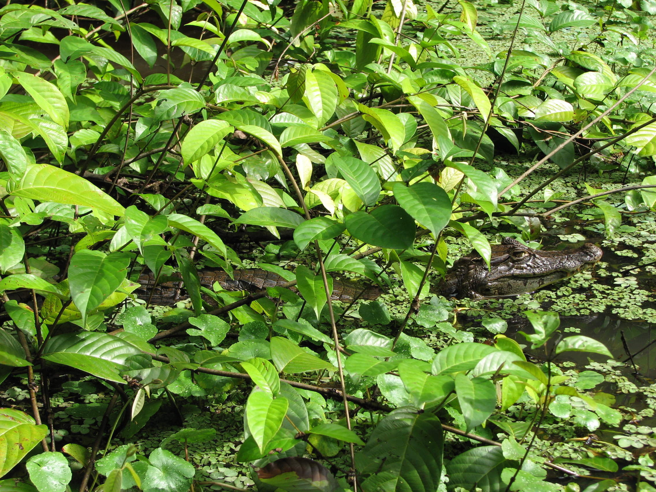 Spectacled Caiman in the Tortuguero National Park, Costa Rica